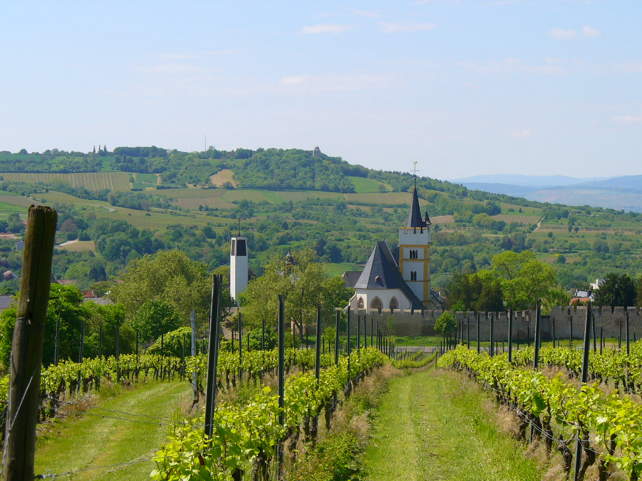 Burgkirche